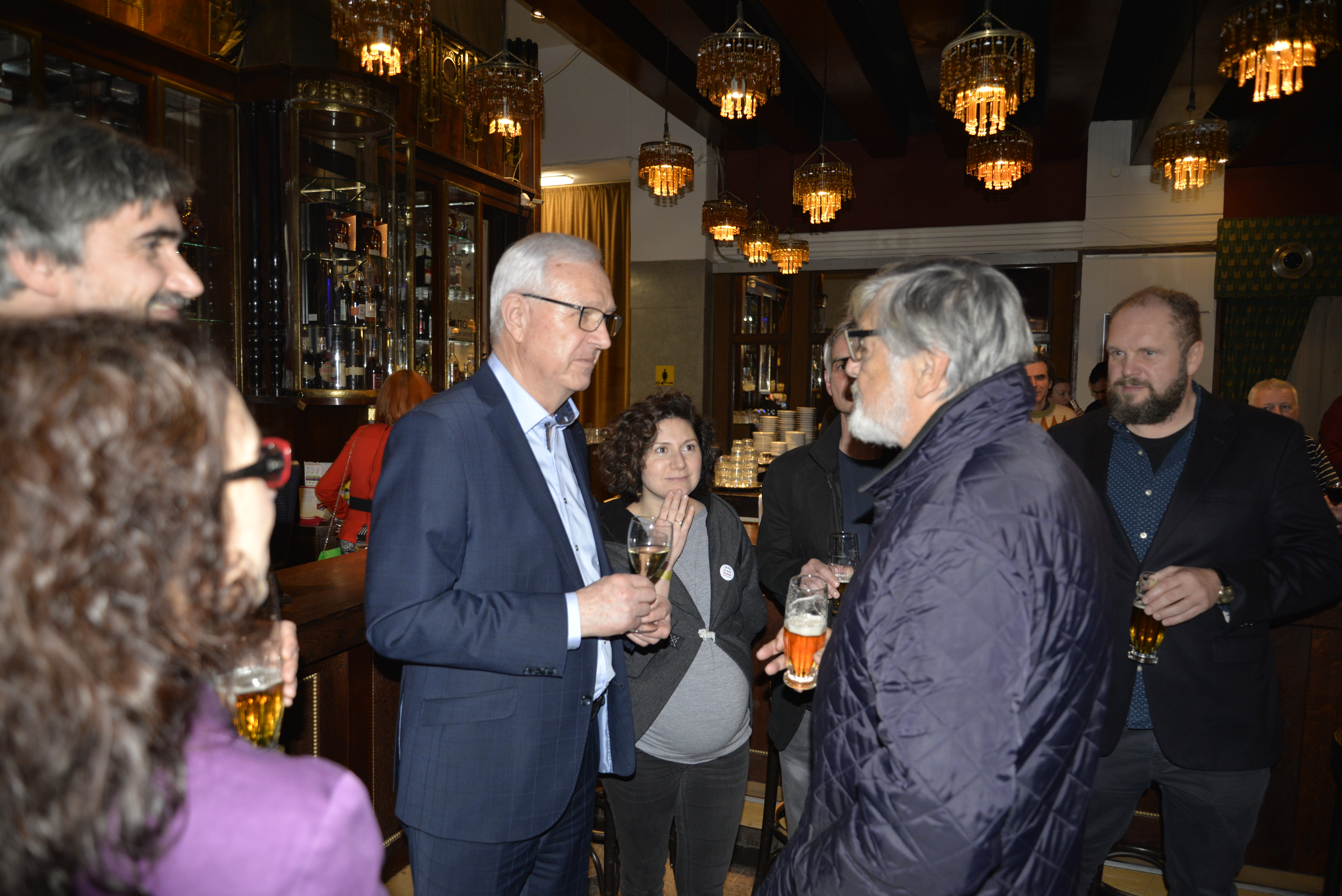 Final part of presidential campaign of Jiří Drahoš in Lucerna Cinema